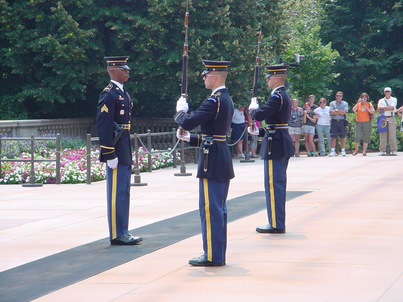 Picture showing the changing of the guards at the Tomb of the Unknowns at Arlington National Cemetery in Washington D.C. On the left is the commander, in the middle is the guard ending his patrol, and on the right is the guard about to begin his patrol. I took this picture and release it into the public domain